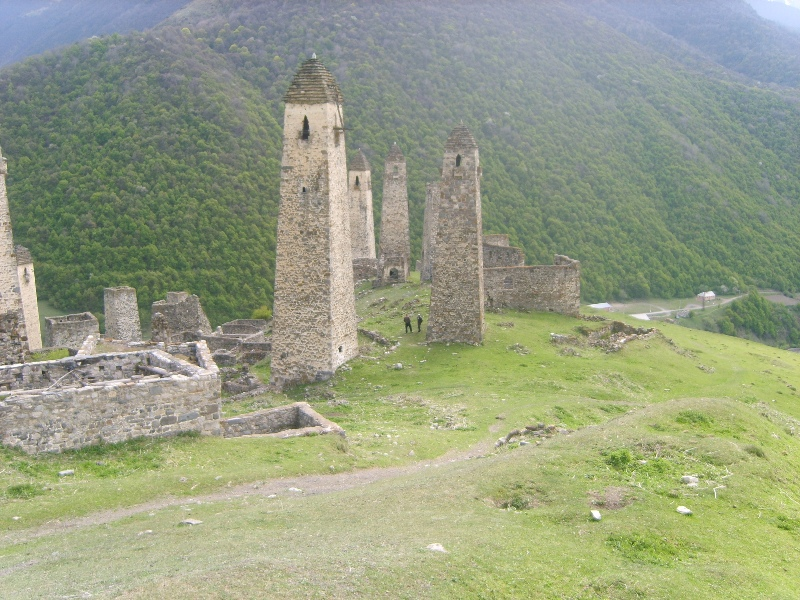 Republic of Ingushetia (Russia) - Battle Tower aul Erzi (Eagle's Nest).